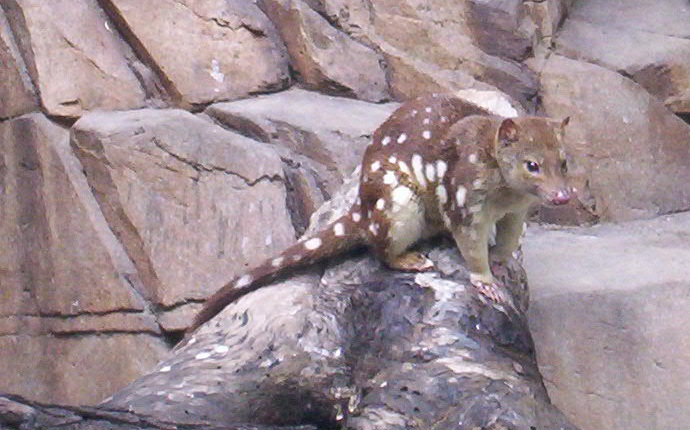 Spotted-tailed Quoll